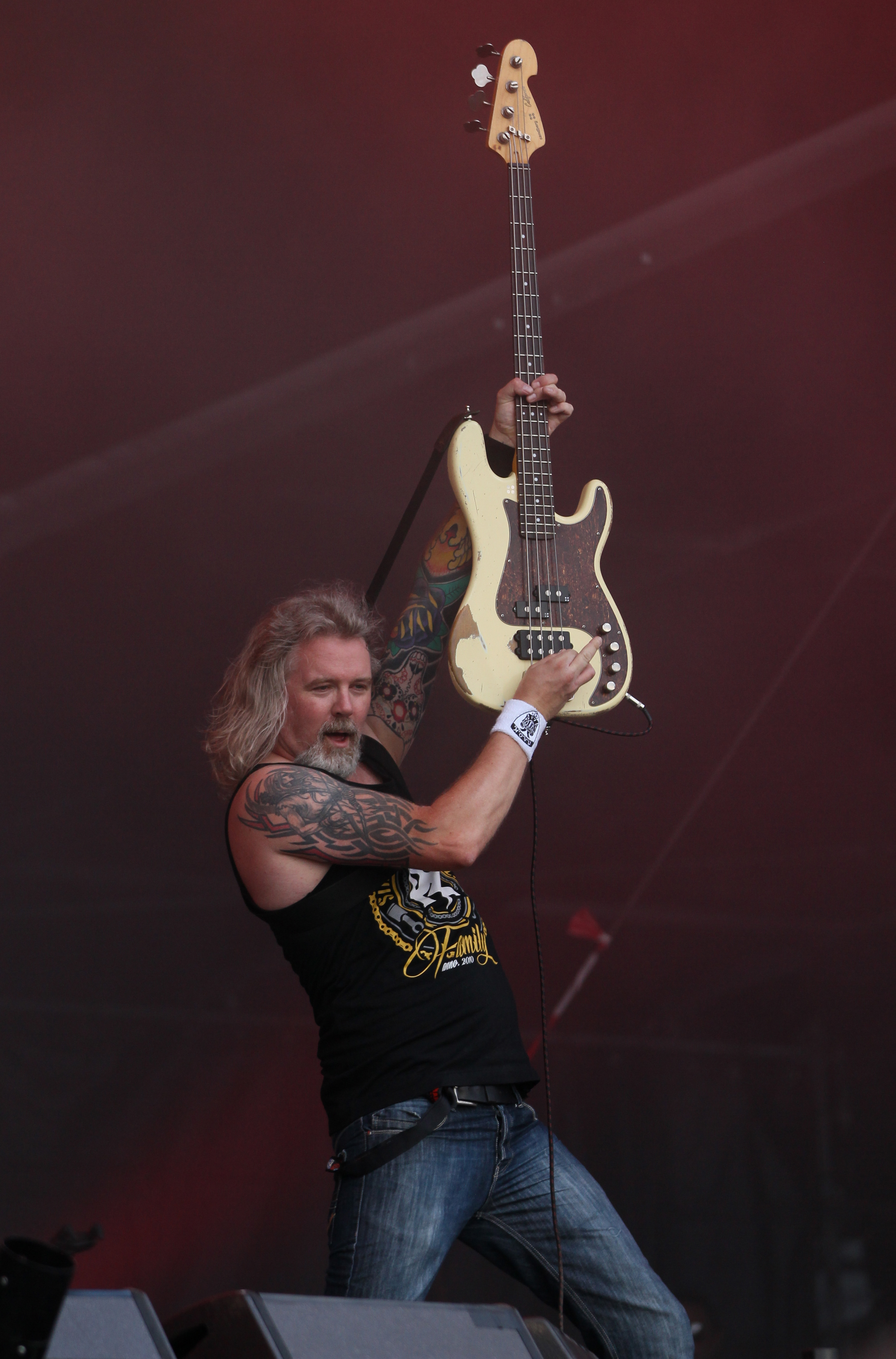 The Swedish gothic metal band Tiamat at the Rockharz Open Air 2014 in Ballenstedt/Germany